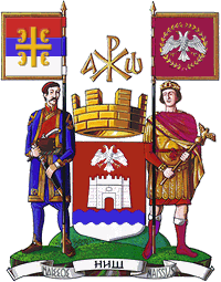 Coat of arms of Niš, Serbia/Blason de la ville de Niš, Serbie